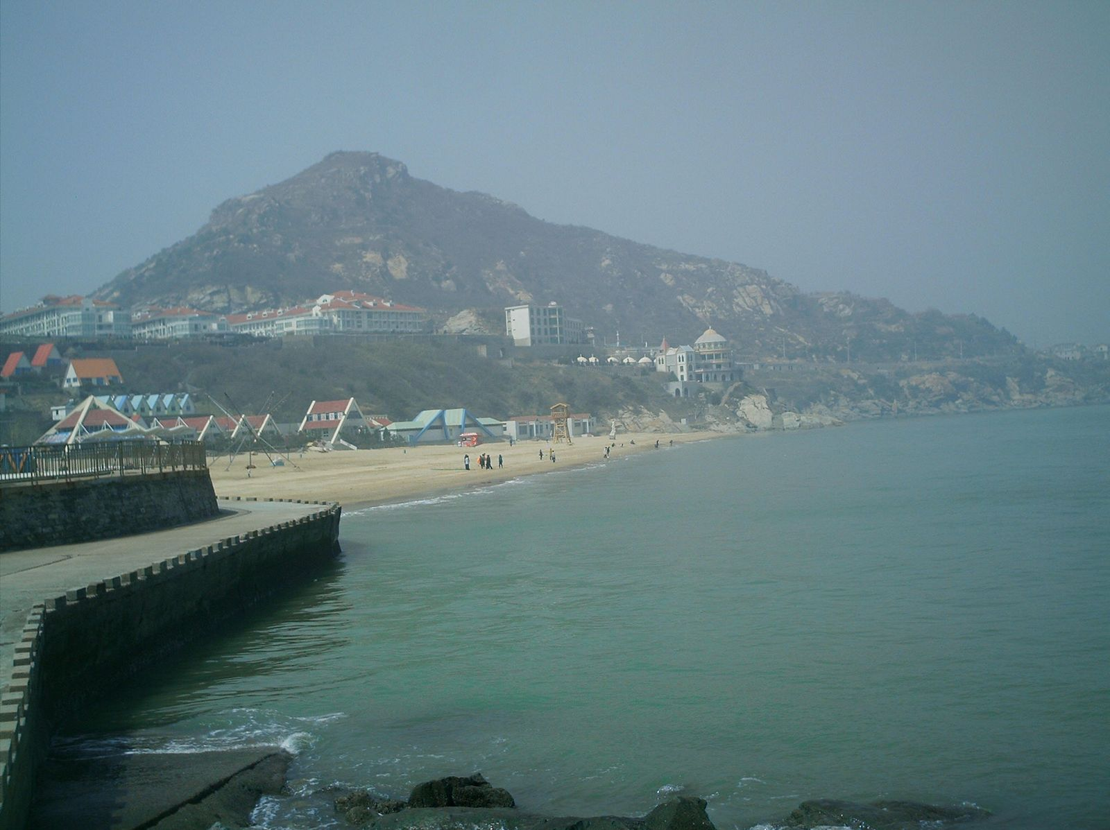 Liandao island of Lianyungang city